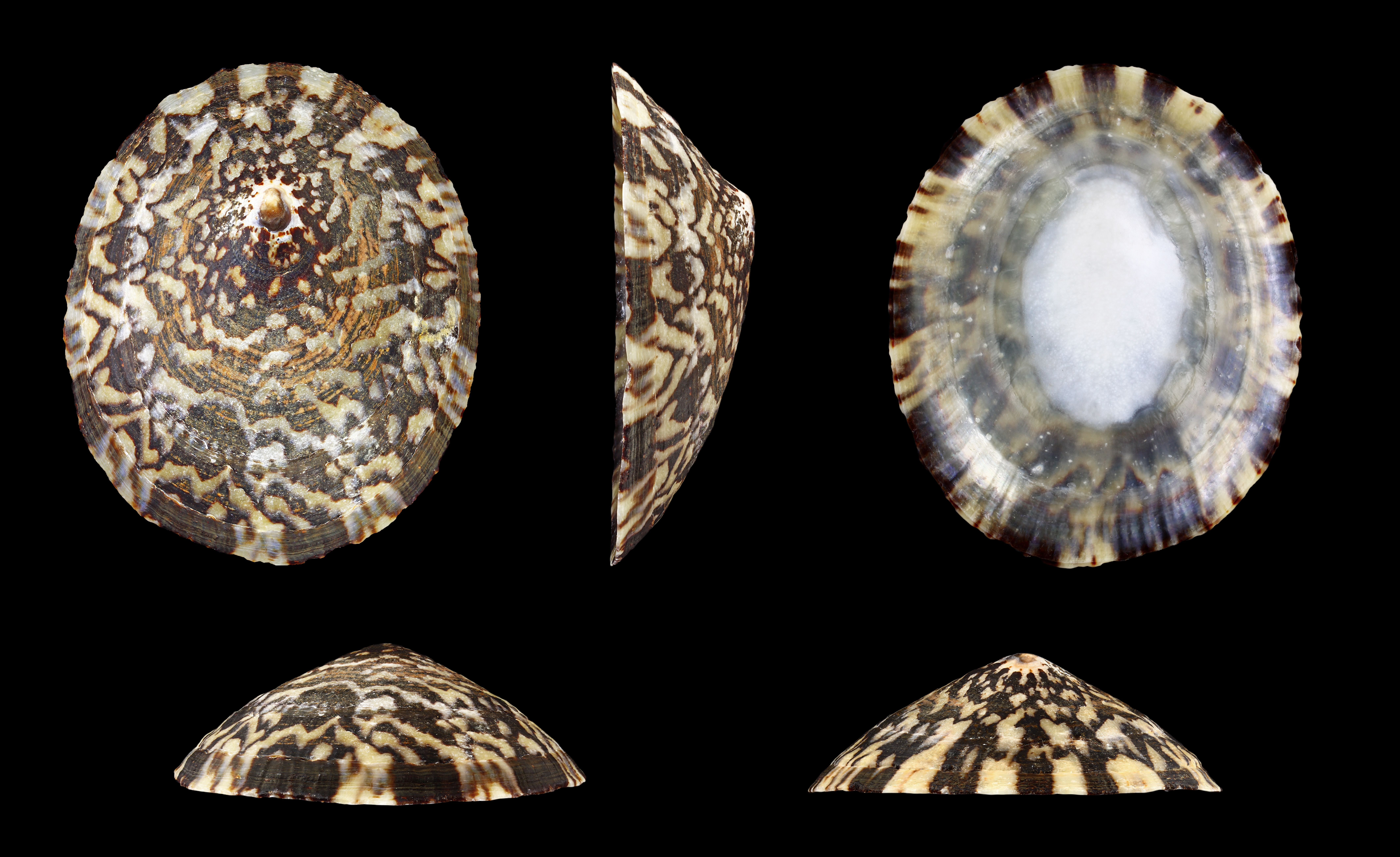 Common Turtle Limpet; Length 8.6 cm; Originating from the Philippines; Shell of own collection, therefore not geocoded. Dorsal, lateral (left side), ventral, back, and front view.